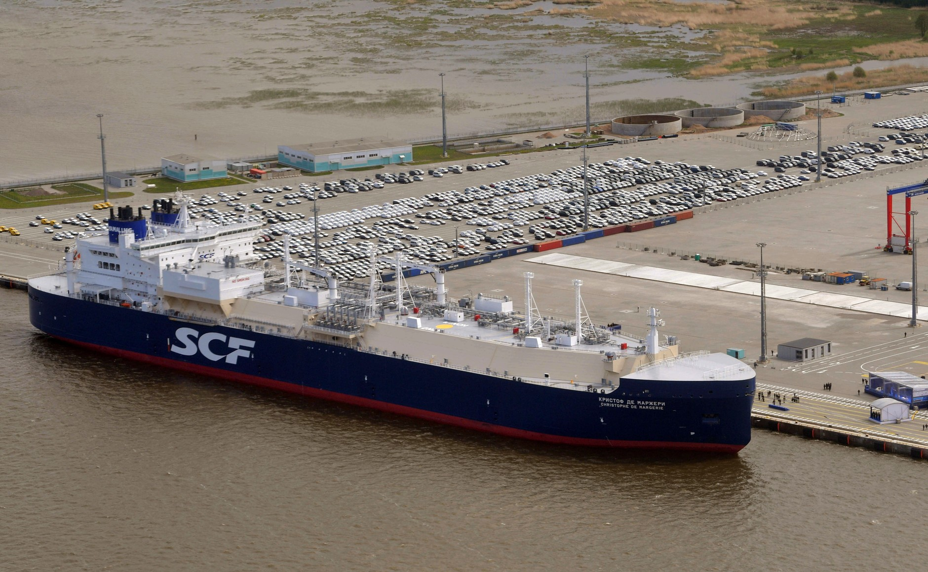 Naming ceremony for Christophe de Margerie LNG carrier